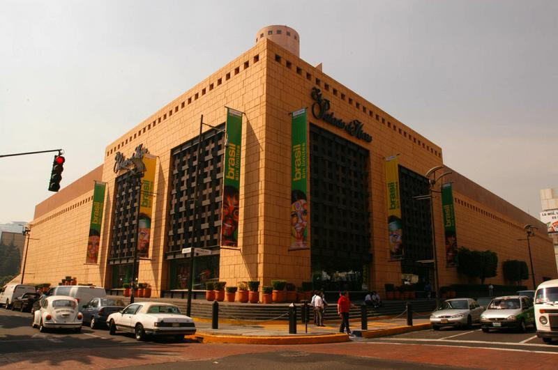 A El Palacio de Hierro department store. El Palacio de Hierro store in Mexico City.